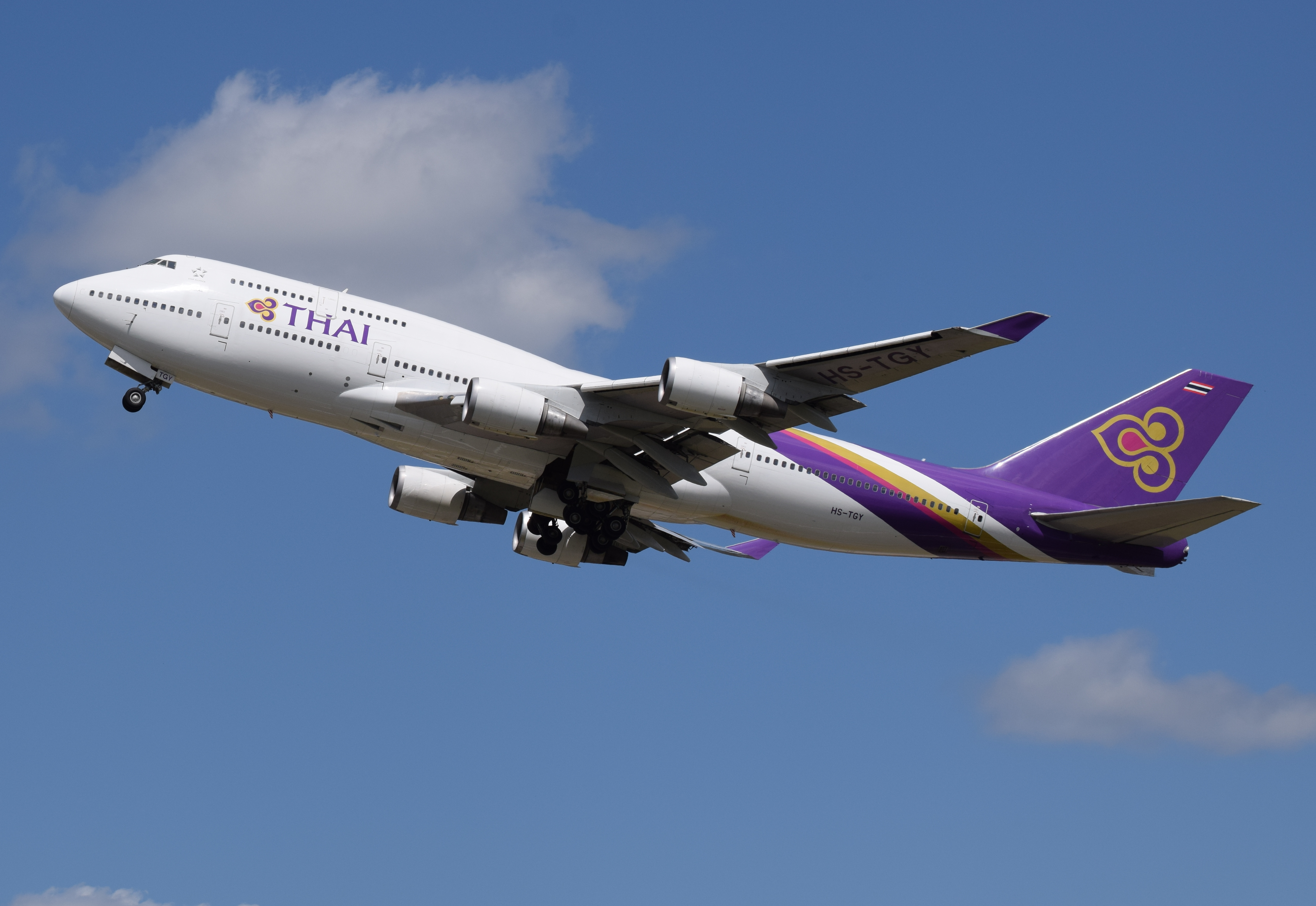 Thai Airways Boeing 747-400 (HS-TGA) departs London Heathrow Airport, England. The undercarriages are still retracting.